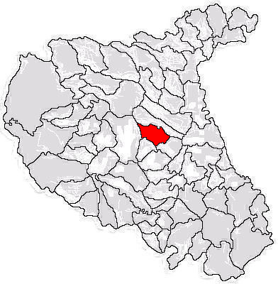 Map of limits of commune in Vrancea County